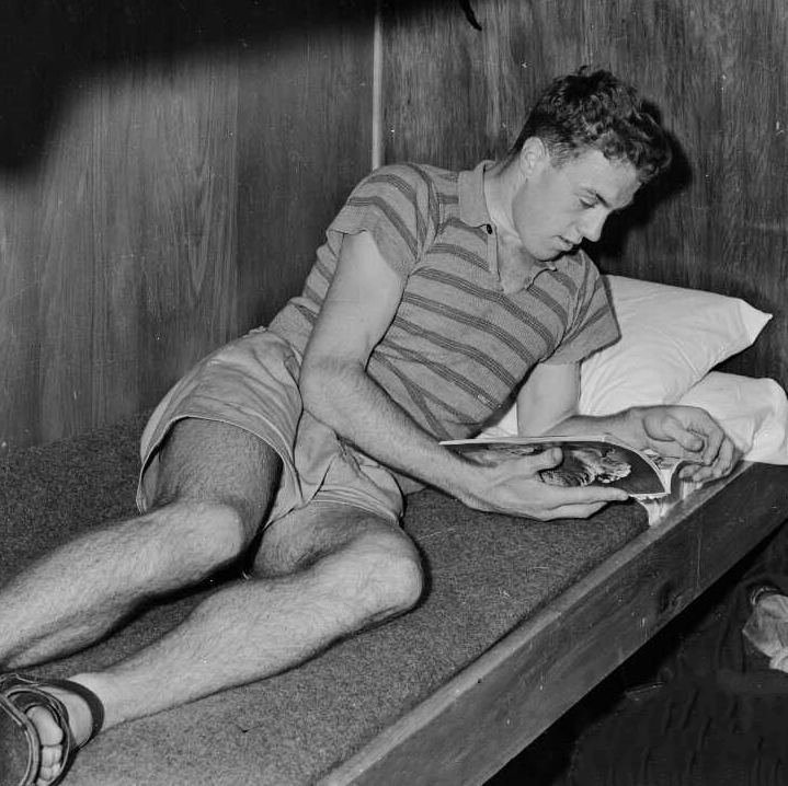 New Zealand distance runners Harold Nelson (top) and George Hoskins lying on their cabin bunk beds reading in the 1950 British Empire Games village at Ardmore, Auckland. Photograph taken circa 1 February 1950 by an Evening Post photographer.